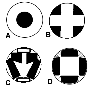 Conceptual designs for the interior of the space station by NASA's contractors